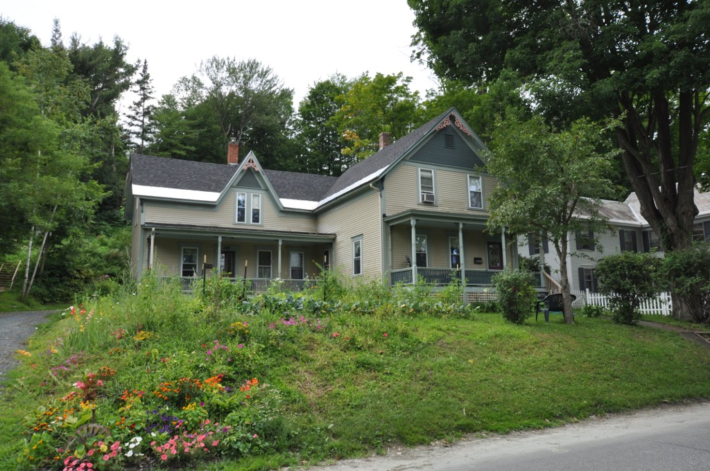 Terraces Historic District, White River Junction, Vermont. Houses on Fairview Terrace.